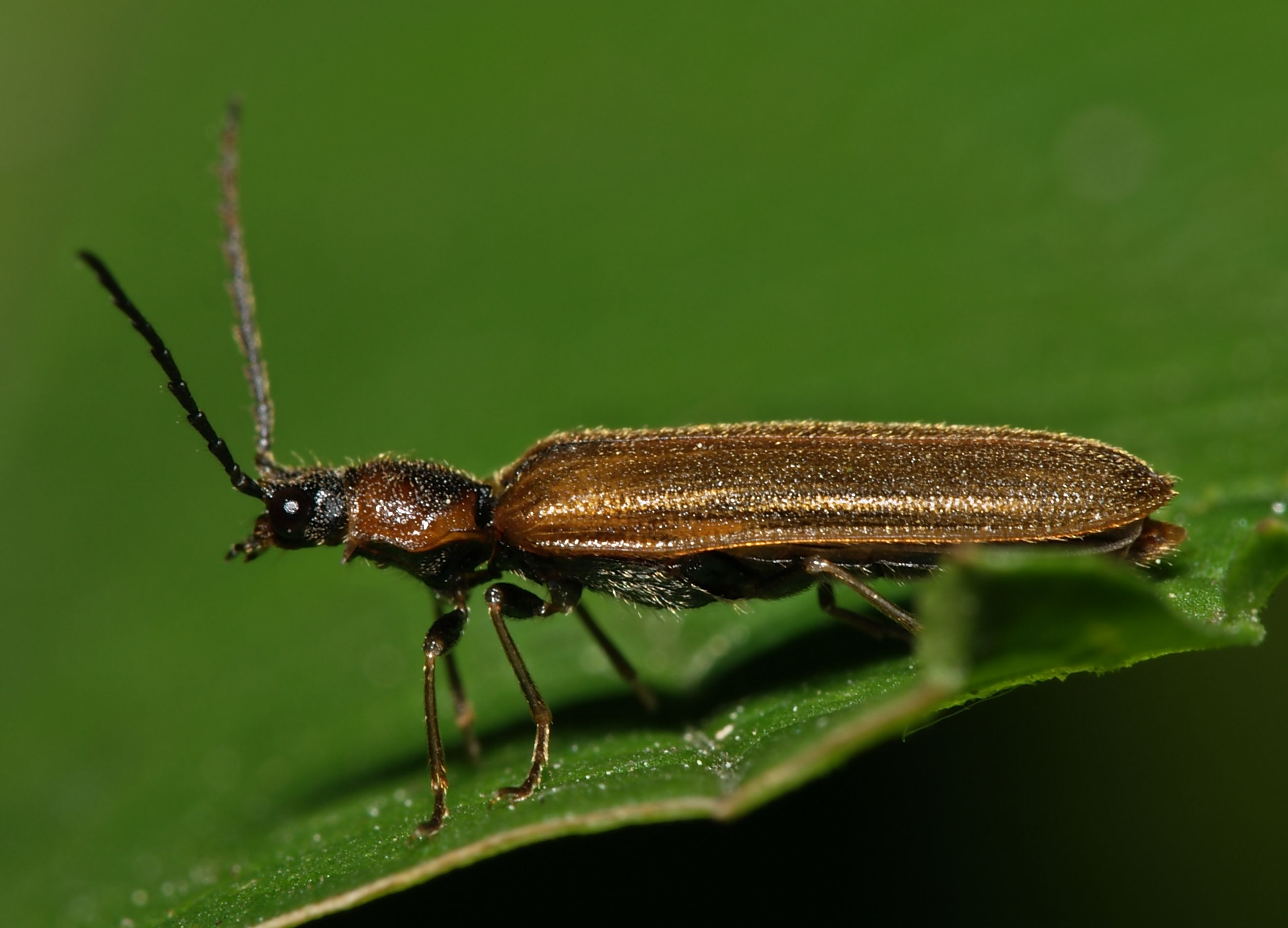 Denticollis linearis from Koenigsforst near Cologne, Germany